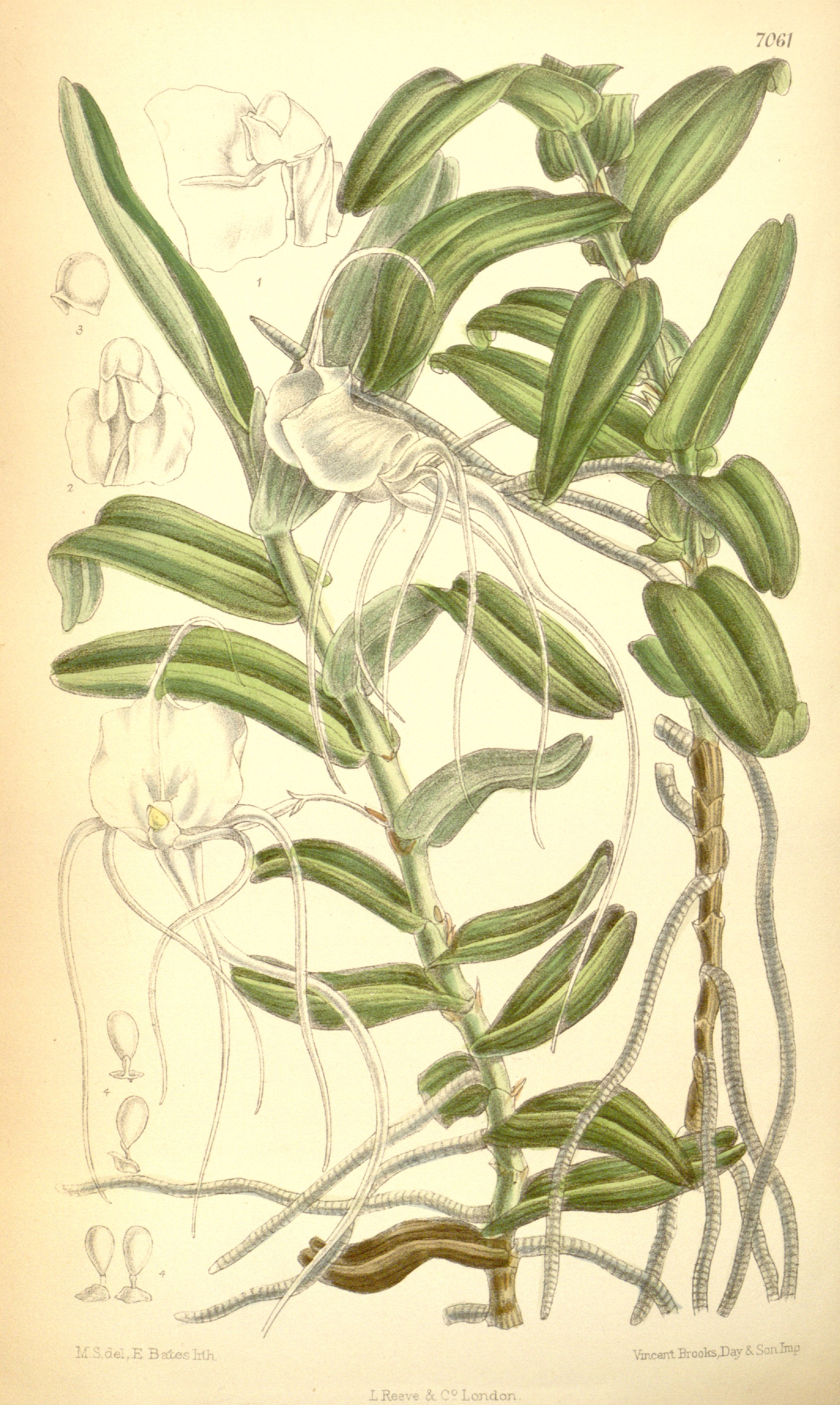 Illustration of Angraecum germinyanum